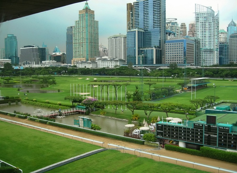 From The Winning Post @ The Royal Bangkok Sports Club : วิวจาก เดอะวินนิ่งโพสท์